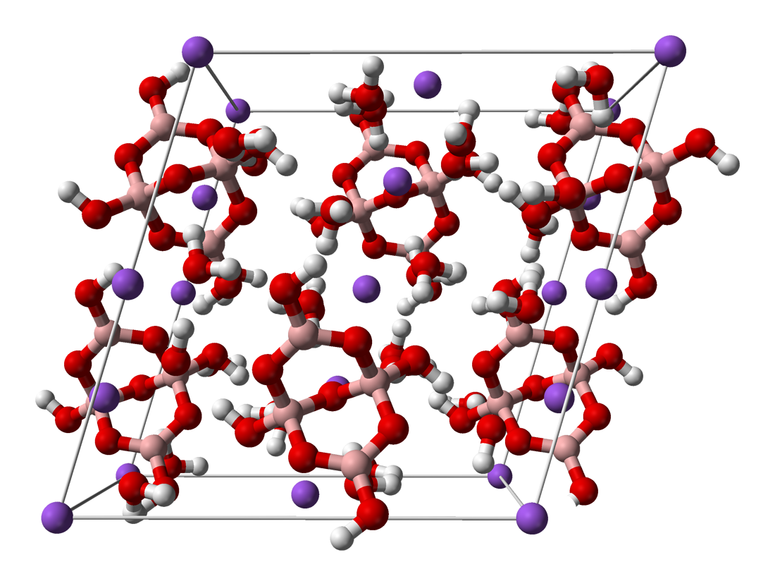 Ball-and-stick model of the unit cell of borax ("sodium tetraborate decahydrate"), Na2B4O7·10H2O, better described as Na2[B4O5(OH)4]·8H2O. Boron is pink, oxygen is red, hydrogen is white, and sodium is lilac. The structure includes 8 water molecules for each tetraborate anion (not shown, for clarity). Neutron diffraction data from H. A. Levy and G. C. Lisensky (December 1978). "Crystal structures of sodium sulfate decahydrate (Glauber's salt) and sodium tetraborate decahydrate (borax). Redetermination by neutron diffraction". Acta. Cryst. B 34 (12): 3502-3510. The anion's formula is [ B4O5(OH)42- ]. A refined structure was published in G. J. Gainsford, T. Kemmitt and C. Higham (2008): "Redetermination of the borax structure from laboratory X-ray data at 145 K". Acta Crystallographica Series E (Inorganic Compounds), volume E64, pages i24-i25. According to this source, each sodium ion is surrounded by 6 water molecules, 4 of which are shared with 4 other sodium cations, forming zigzag chains.